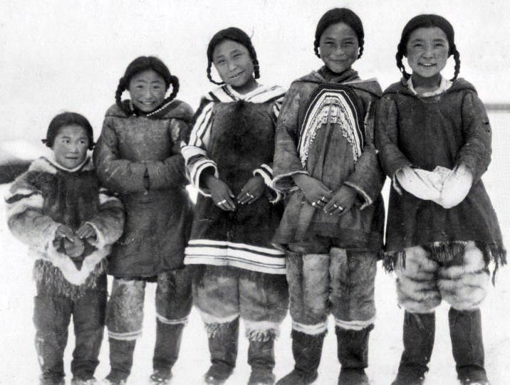 Photograph, Group of Inuit children, about 1925, Captain George E. Mack, Silver salts on paper (matt finish) mounted on paper - Gelatin silver process - 7.7 x 10.1 cm